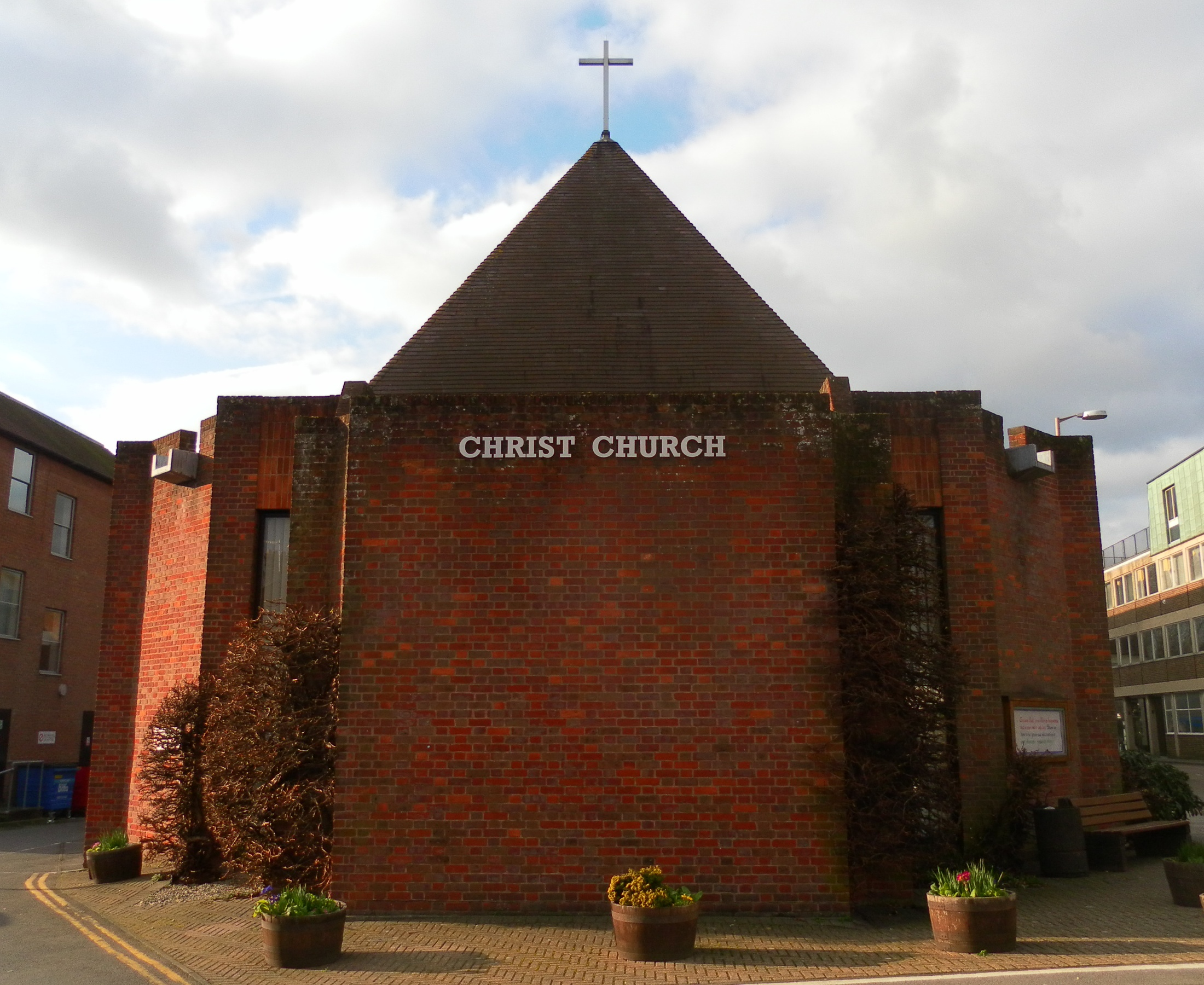 Christ Church, Market Avenue, Chichester, West Sussex, England. A combined Methodist and United Reformed church, opened in 1982 after the demolition of the nearby Methodist and United Reformed churches.